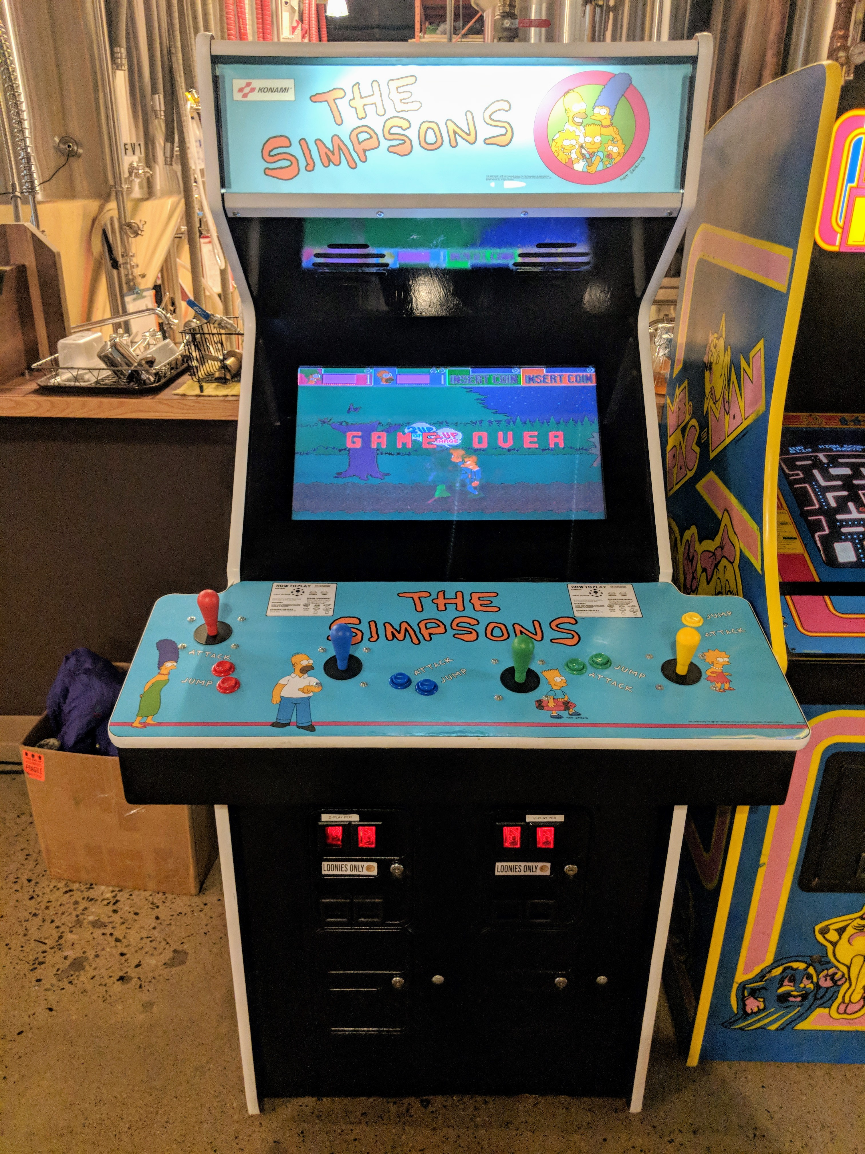 The Simpsons Arcade Game at a brewery in Calgary, Alberta, Canada. Photo taken in November 2019.